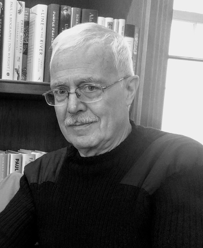 Professor Ingemar Dierickx in 2018